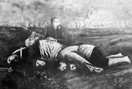 Muerte del general Justo Rufino Barrios en la batalla de Chalchuapa.